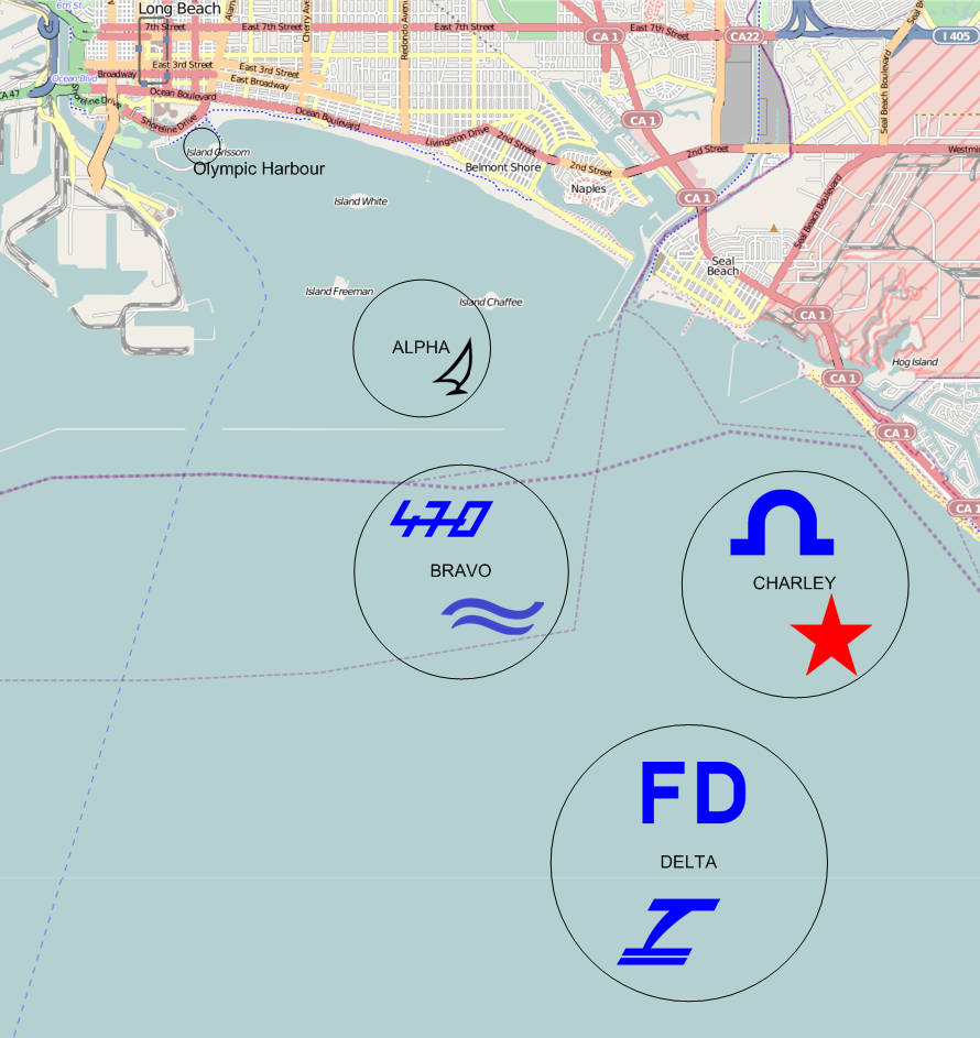 Long Beach Olympic Course Area's 1984 This map may be incomplete, and may contain errors. Don't rely solely on it for navigation.